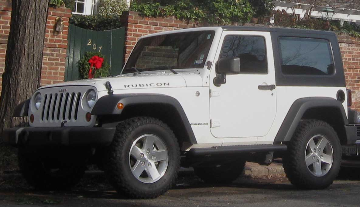 2007-2009 Jeep Wrangler photographed in Alexandria, Virginia, USA.